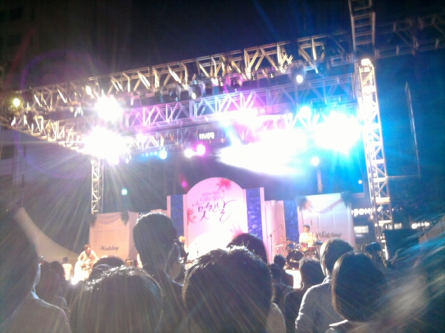 South Korean film director, who is gay, Kim Jho Kwang-soo's public wedding